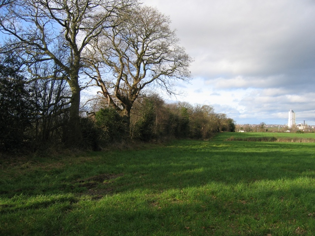 Wat's Dyke This dense hedge line is on the line of the ancient earthwork, Wat's Dyke. On the right of the picture is the cement factory chimney at Padeswood Hall.